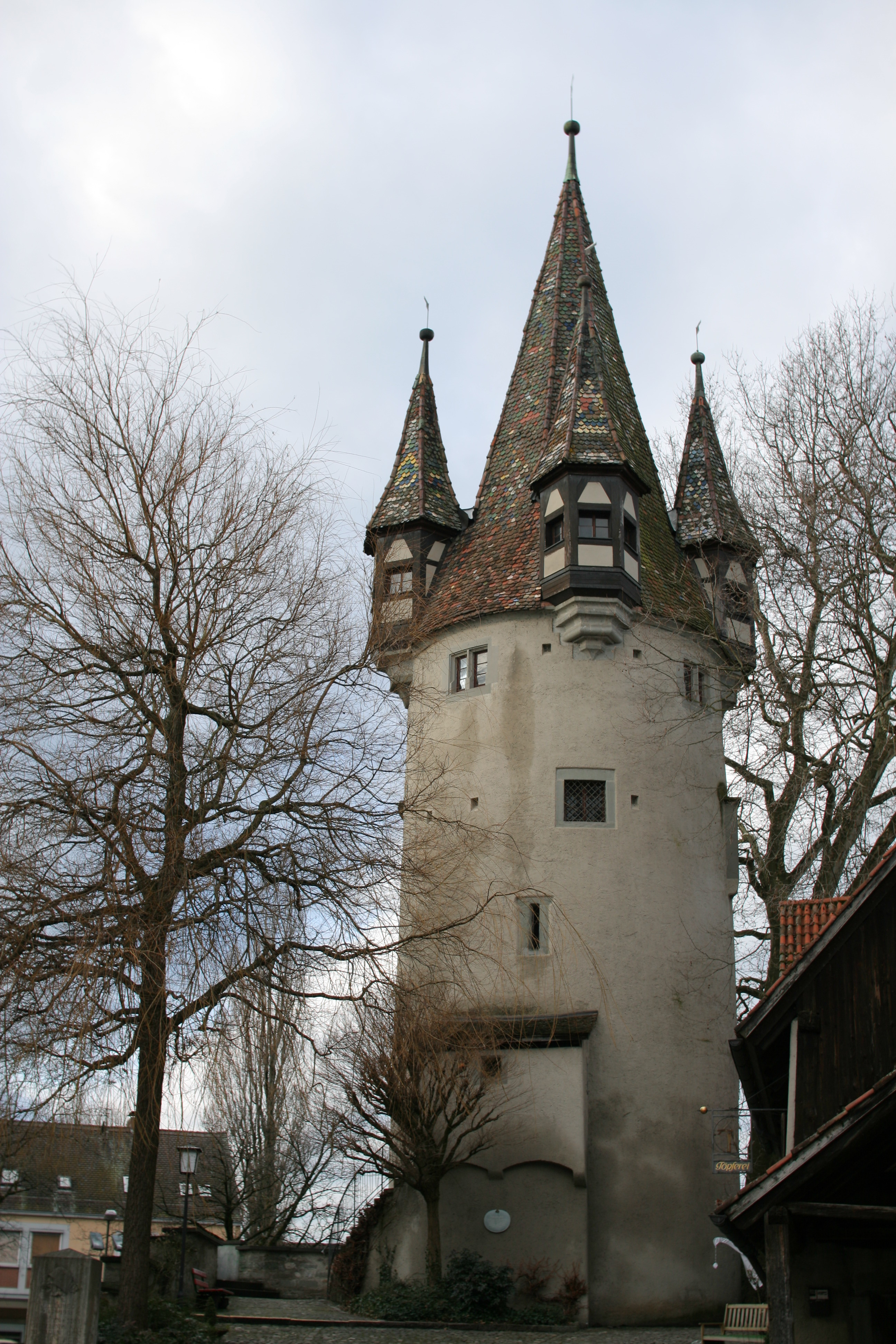 Diebturm in Lindau